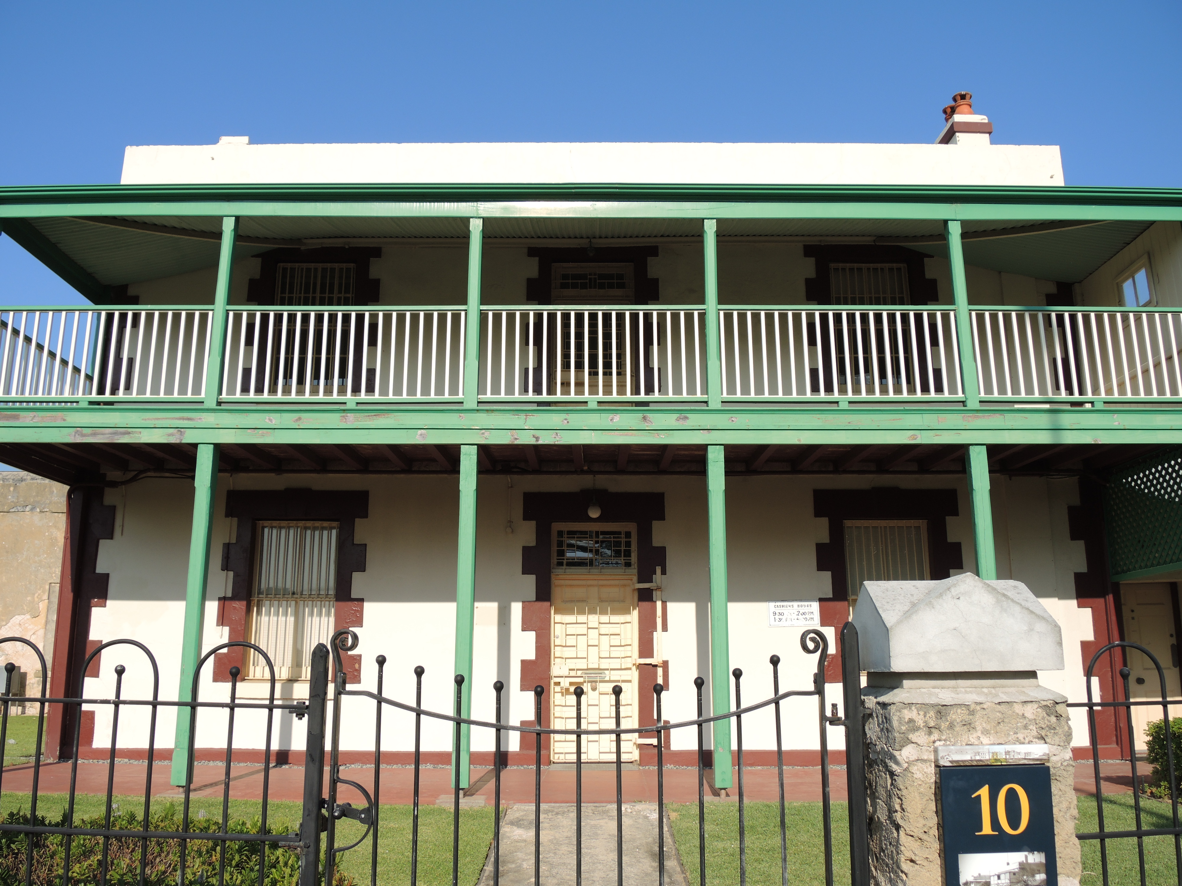 Fremantle Prison: 10 The Terrace